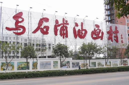 Wushipu oil painting village in Xiamen